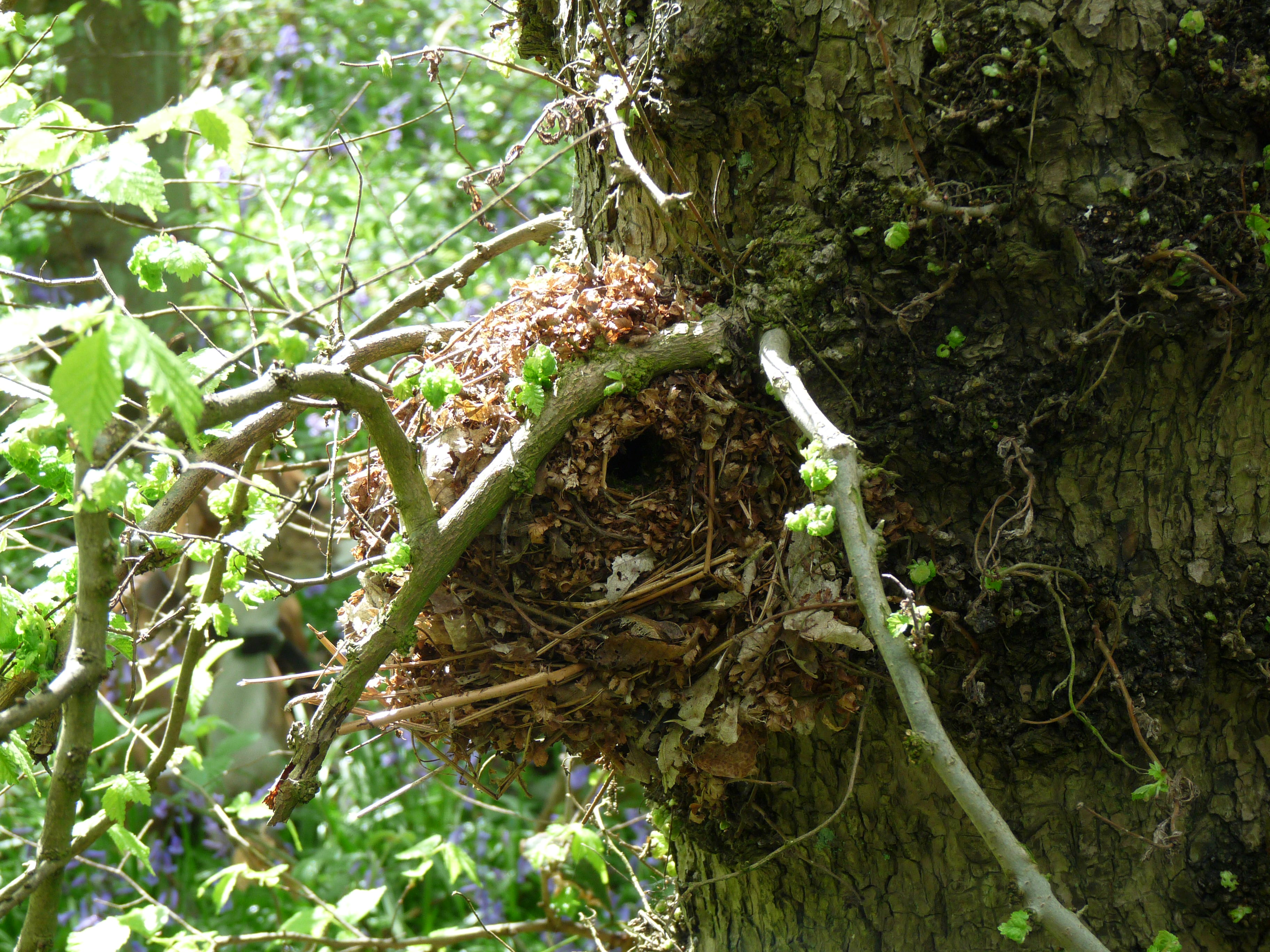 Latin name Troglodytes troglodytes Family Wrens (Troglodytidae) Overview The wren is a tiny brown bird, although it is heavier, less slim, than the even... Where to see them ... When to see them All year round. What they eat Insects and spiders